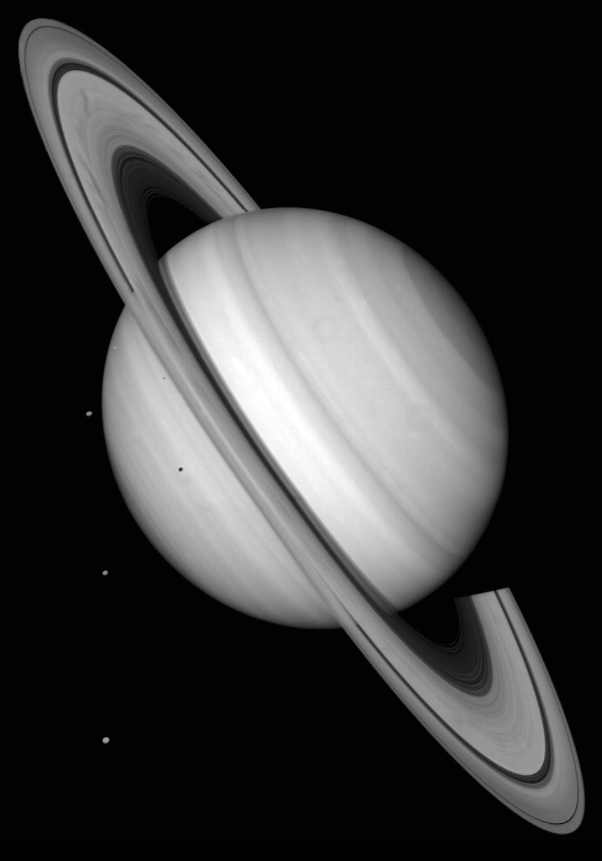 Voyager 2 image of Saturn, its rings and four of its moons. Three of Saturn's icy moons are evident at left against the darkness of space. They are, in order of distance from the planet: Tethys, 1,050 km (652 mi.) in diameter; Dione, 1,120 km (696 mi.); and Rhea, 1,530 km (951 mi.). The shadow of Tethys appears on Saturn's southern hemisphere. A fourth satellite, Mimas, is less evident, visible as a bright spot against Saturn's cloud tops very near the left horizon and just below the rings, above Tethys; the shadow of Mimas appears on the planet directly above that of Tethys. The shadow of Saturn is seen across part of the rings. The satellites all orbit Saturn in the plane defined by its rings and equator. The rings also show some enigmatic radial structure ('spokes'), particularly at left.